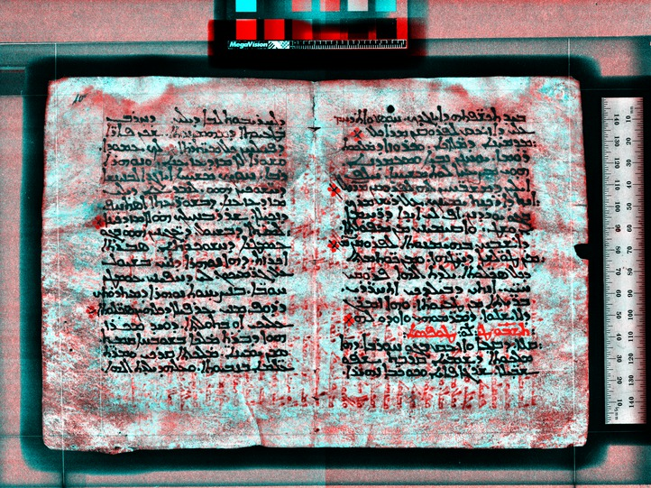 Scanned pages from the "Galen's Palimpsest". Orizontal (black) lines is a religious text of 11th c. Vertical (red) lines is the Galen's text in syriac, probably scribed in 9th c.